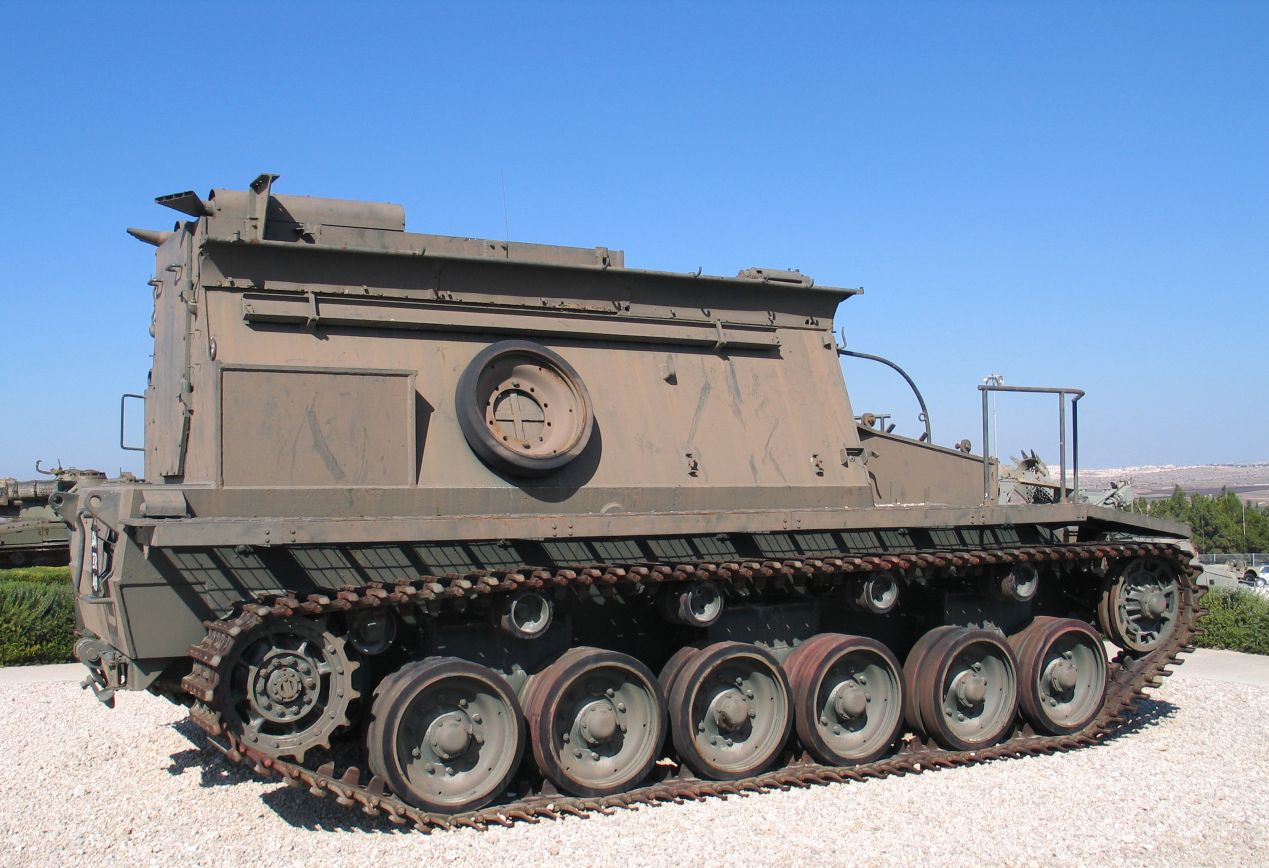 Description: Centurion BARV (Beach Armoured Recovery Vehicle) in Yad la-Shiryon Museum, Israel. Source: Photo by me, User:Bukvoed.